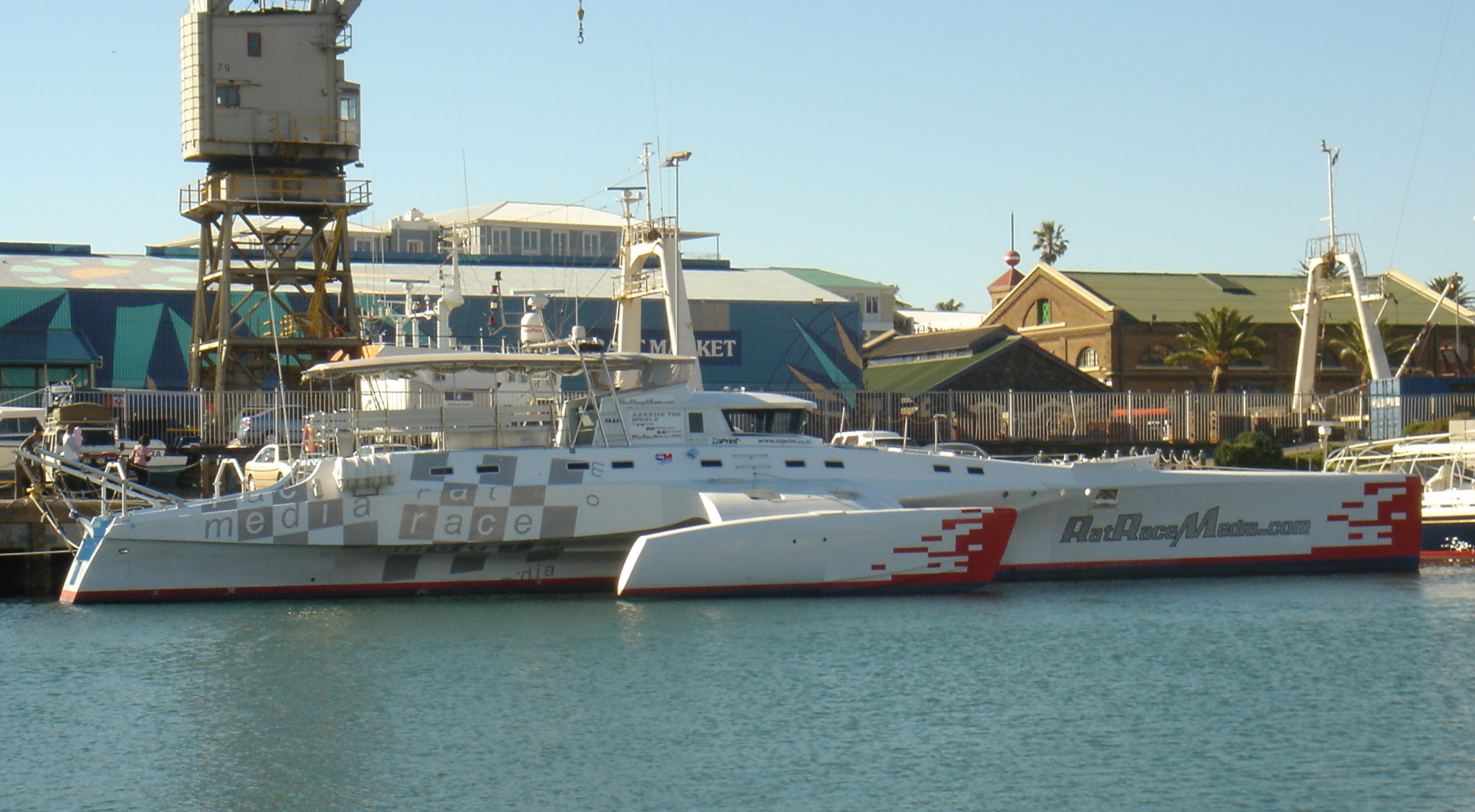 Rat Race Media Adventurer, V&A Waterfront, Cape Town, South Africa